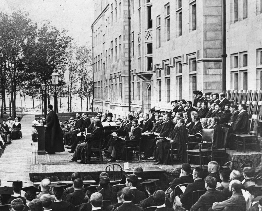 According to the source, this is the ceremony of the 7th Convocation of the University of Chicago. The University's first president, William Rainey Harper, and others are visible in the audience